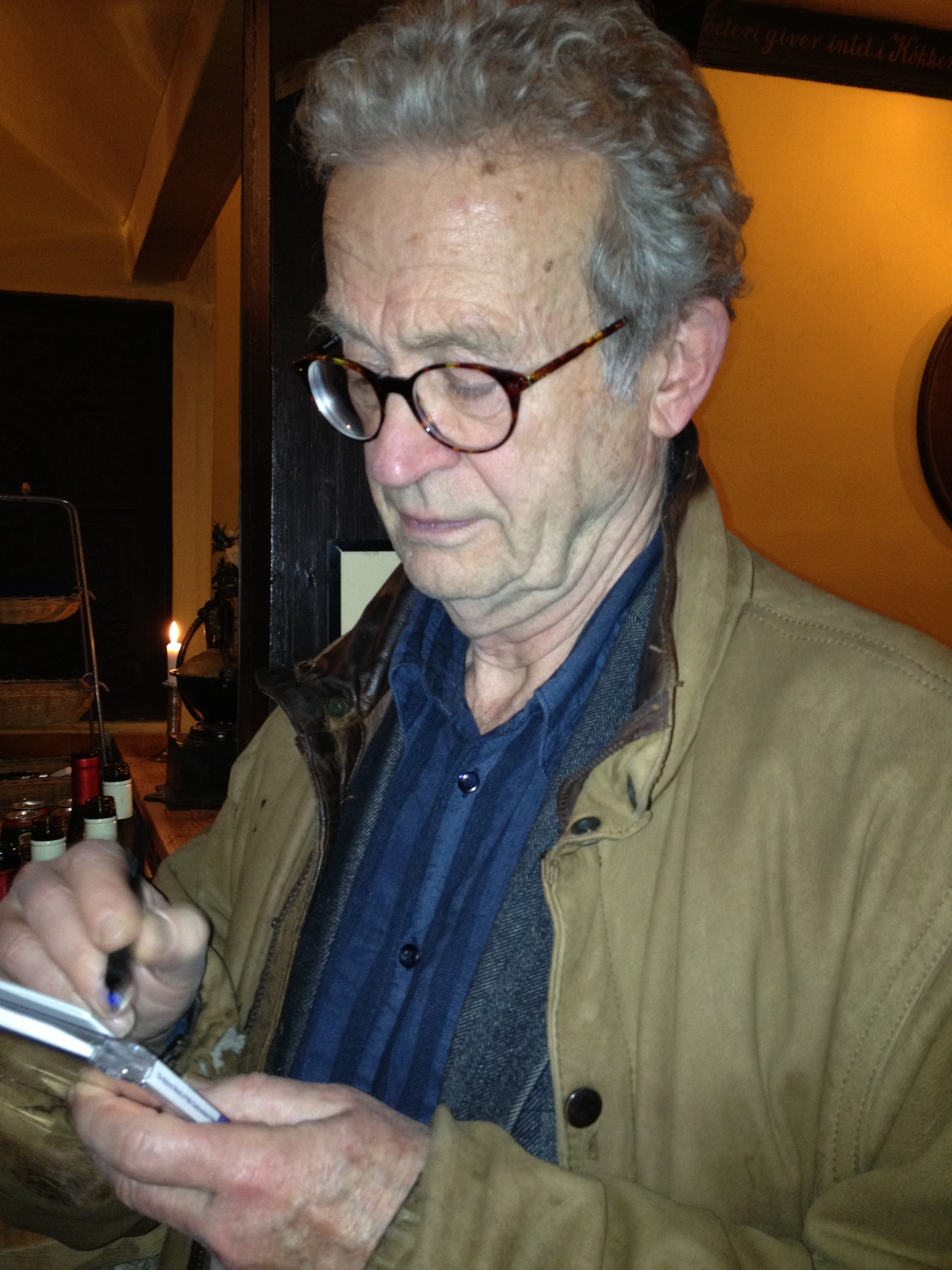 Danish composer Pelle Gudmundsen-Holmgreen visiting Admiral Gjeddes Gaard, January 2012.